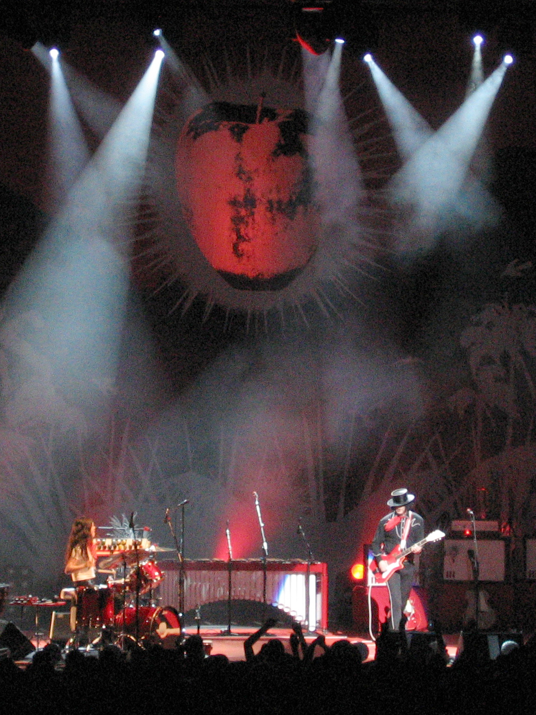 The White Stripes